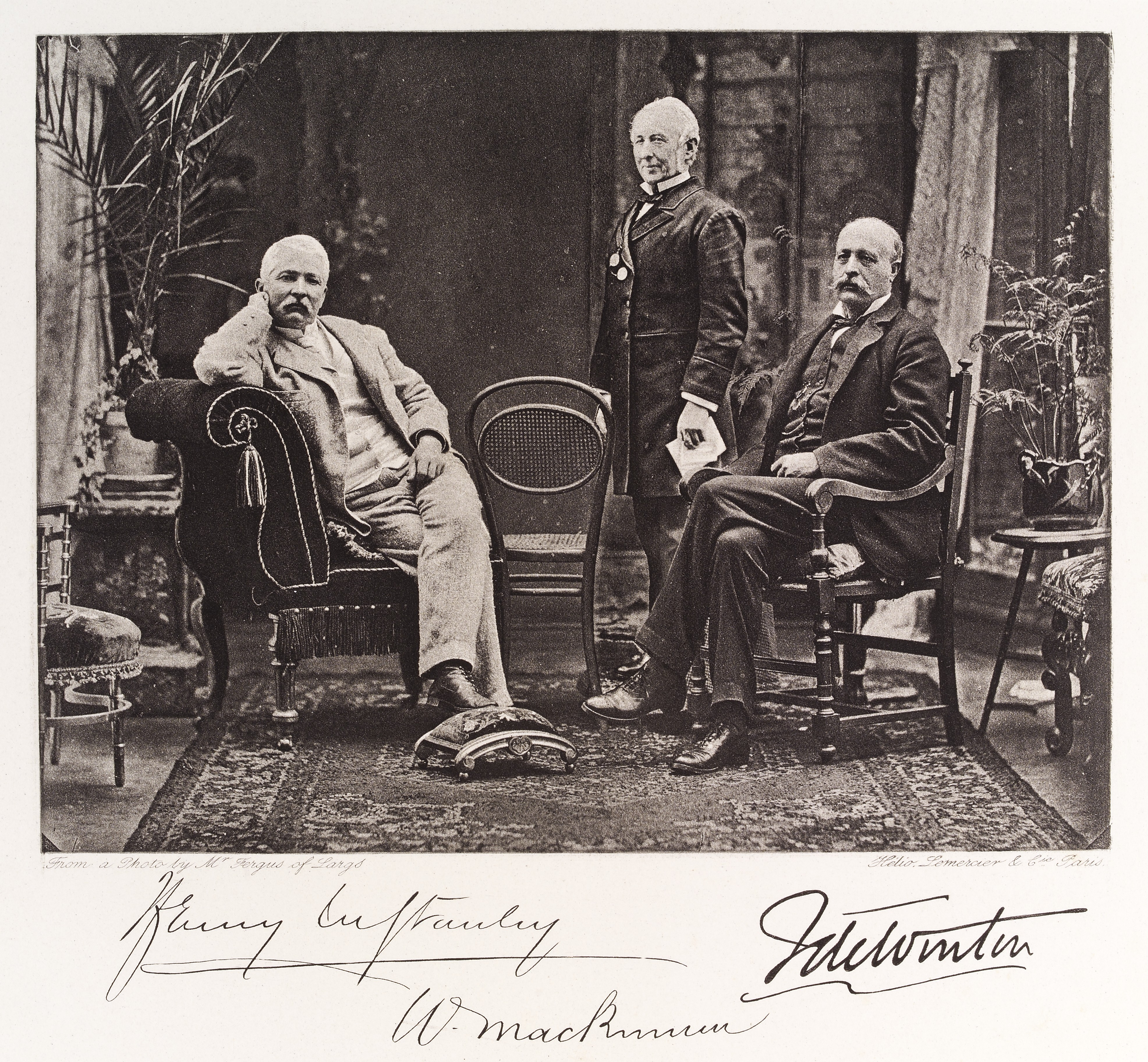 (L to R) Henry M. Stanley, Sir William Mackinnon and Sir F. de Winton General Collections Keywords: Lemercier & Co., Paris; Emil Pasha; Expedition; Travel; Henry Morton Stanley; Portraiture; Travels; Exploration; Emin Pasha Relief Expedition; Expeditions